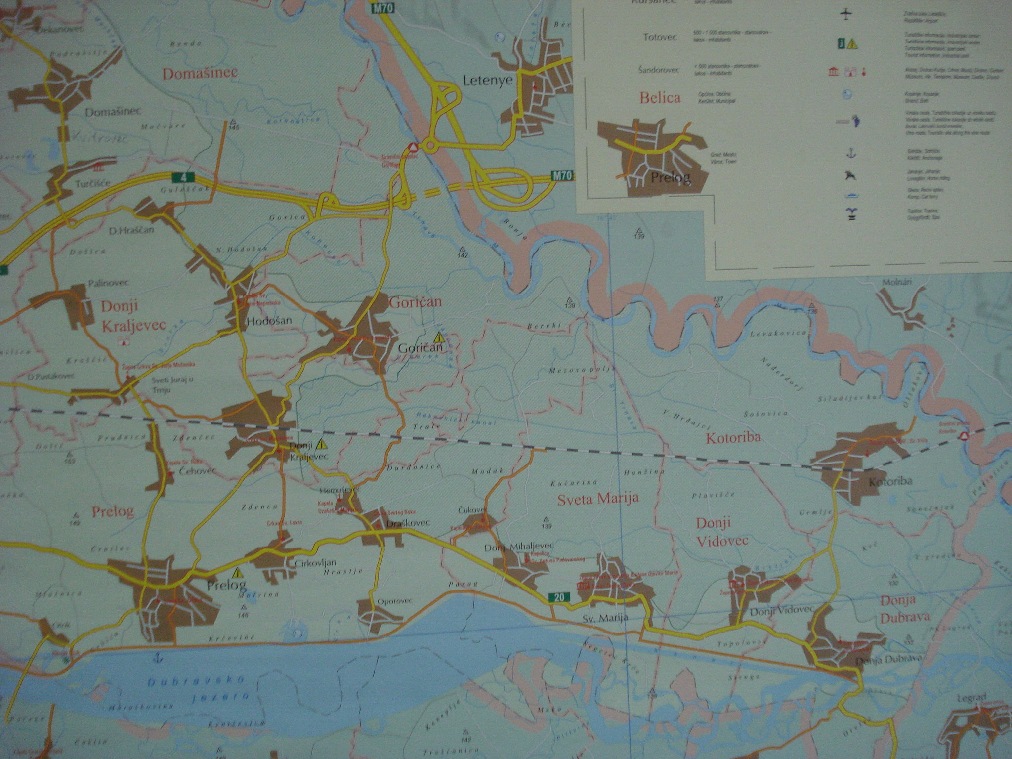 Map of the Medjimurie County, Croatia - southeastern part